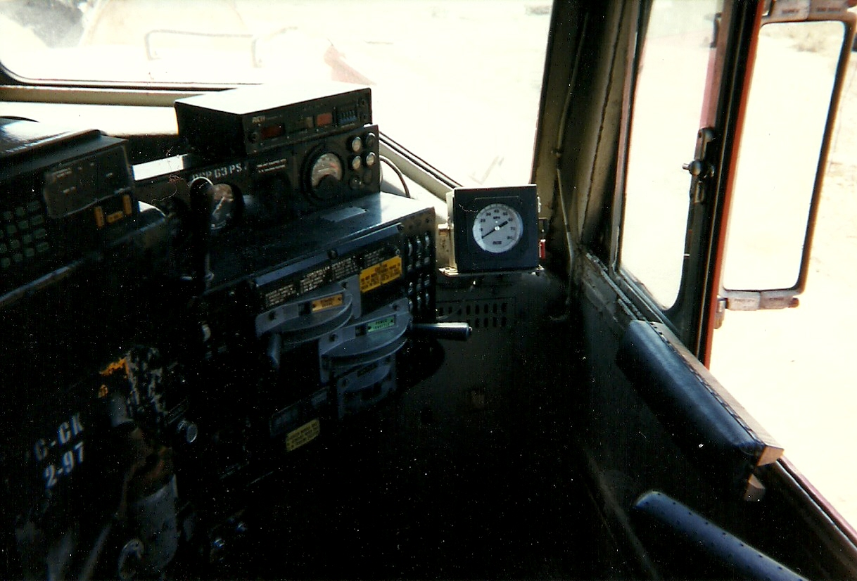 Control stand of ATSF 98, a historic EMD FP45 diesel-electric locomotive on display at the Orange Empire Railway Museum, Perris, California USA